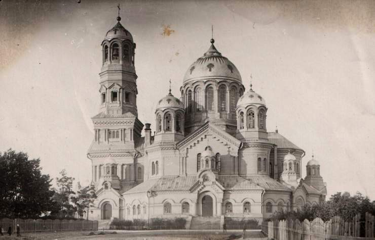 Christ the Saviour Cathedral in Samara